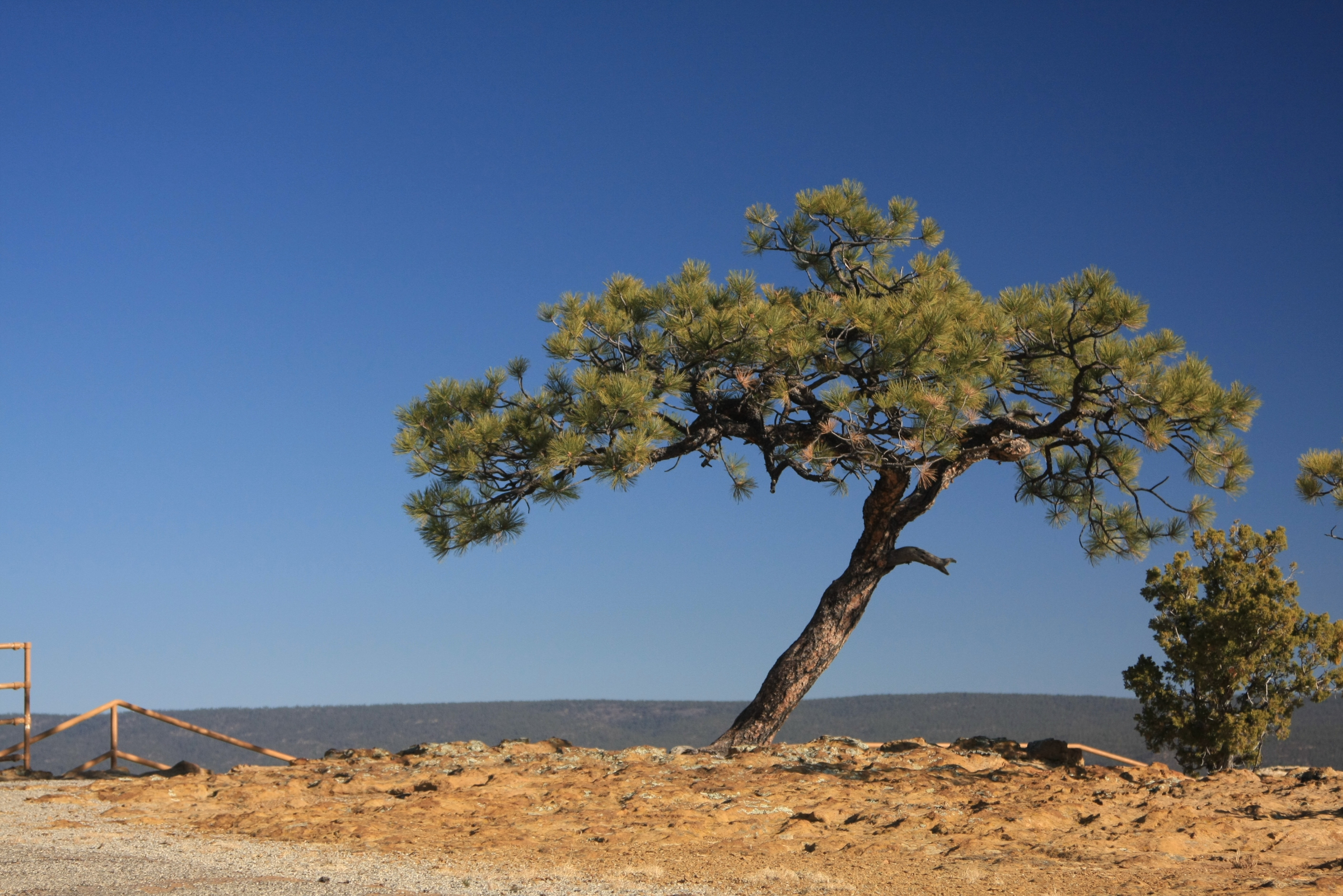 Lone pine (Pinus ponderosa subsp. brachyptera) perching on the top of a mesa like an umbrella. Photo taken at Mesa Top Trail Loop, El Morro National Monument, New Mexico, USA.